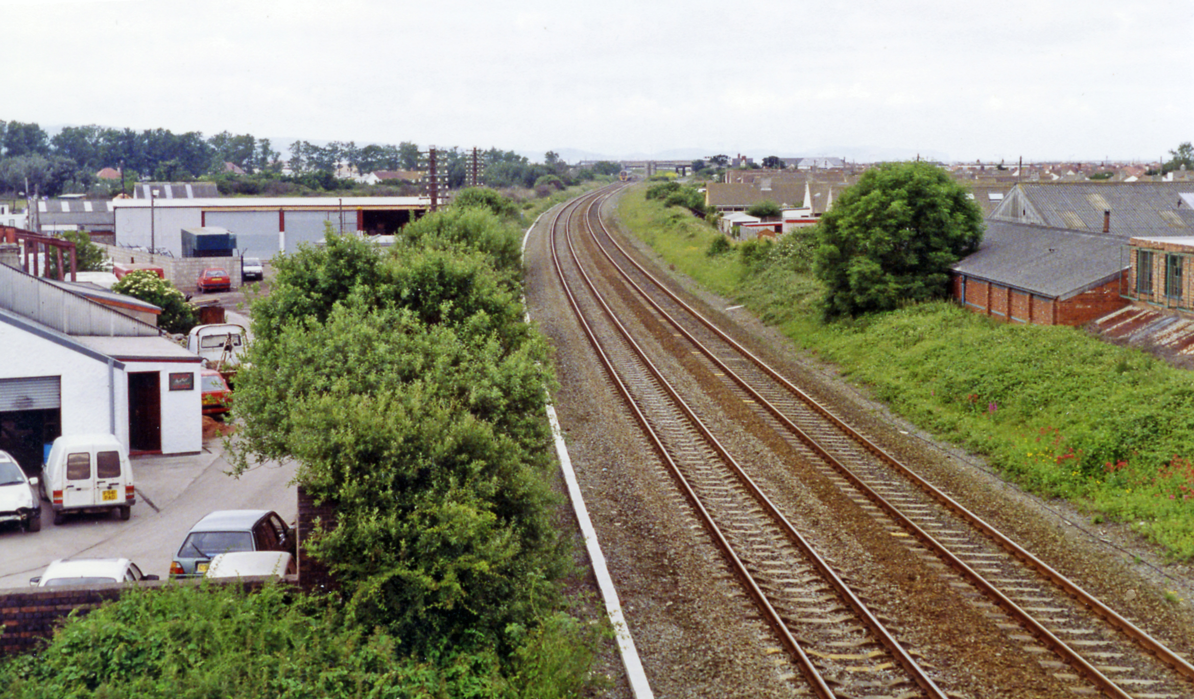 Site of Foryd station. View westward, towards Llandudno, Bangor and Holyhead: ex-LNWR Chester - Holyhead main line. Nothing whatever is left of Foryd station, as it closed 5/1/31 - although it was reopened as Kinmel Bay Halt in the summer seasons of 1938 and 1939.